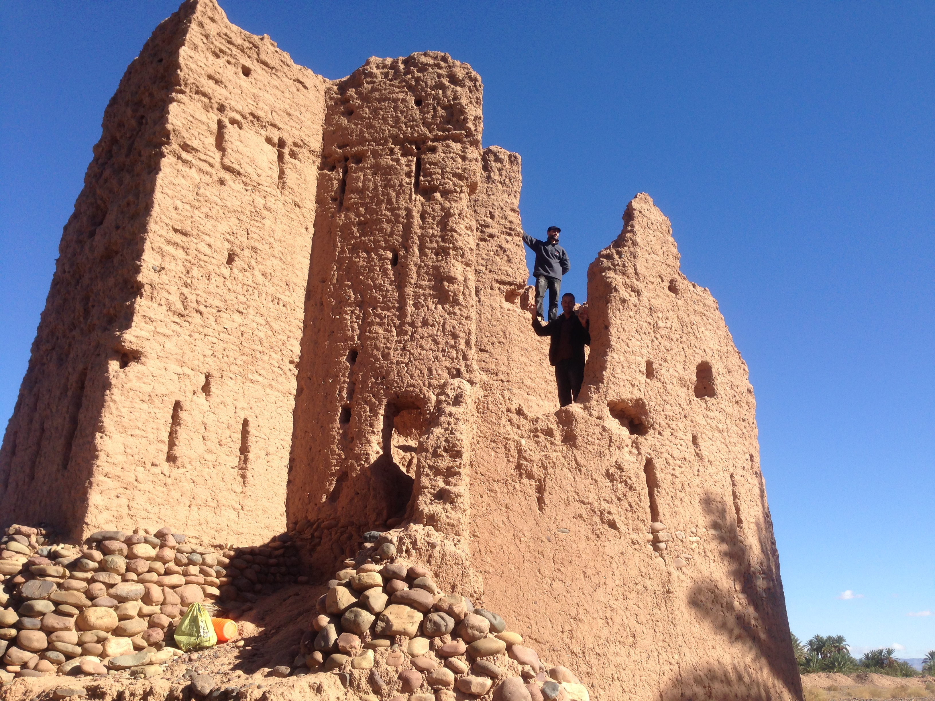 The photo shows an ancient moroccan military castle in Zagora This is an image of "African people at work" from Morocco